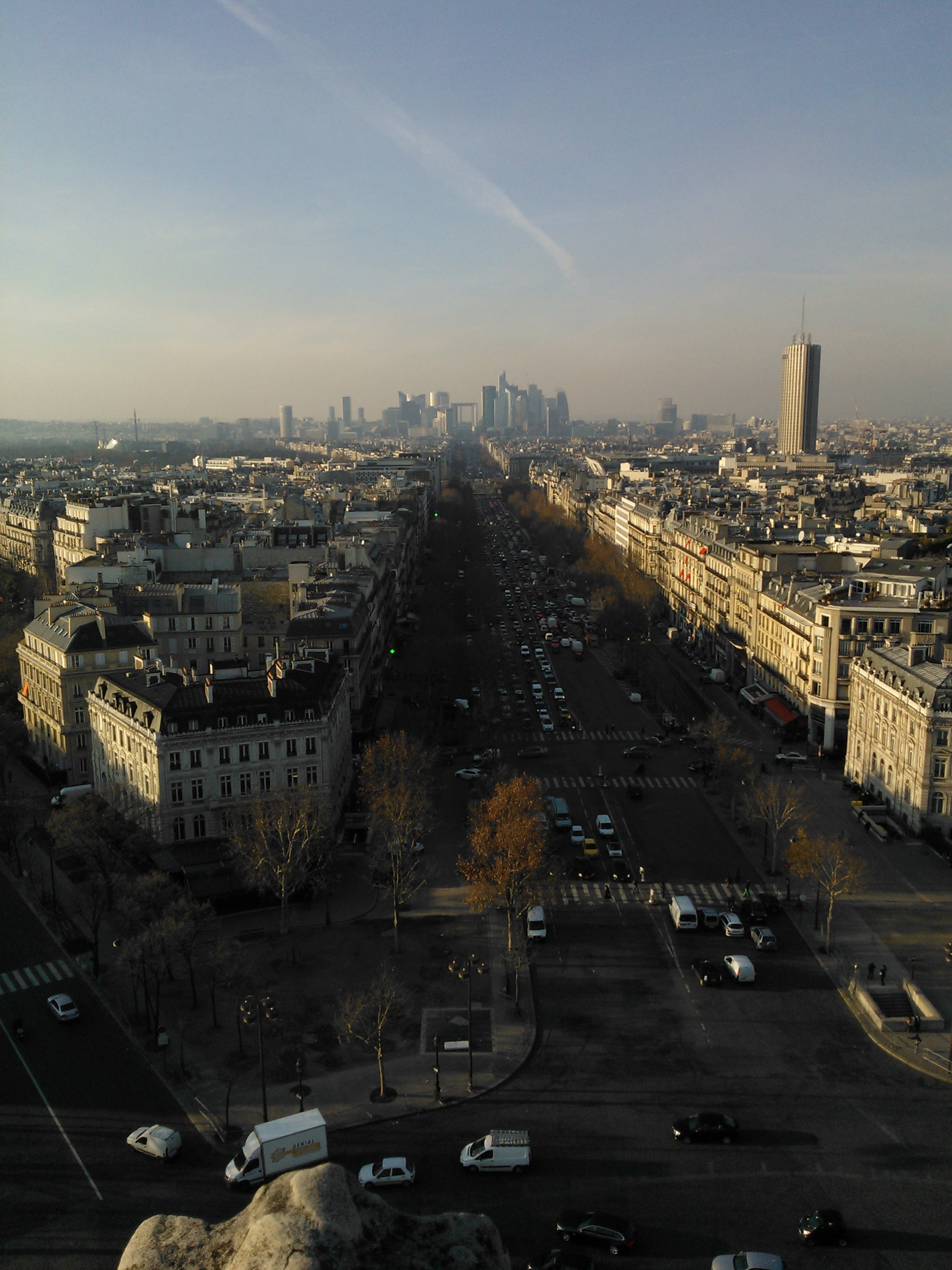 Panorama of La Défense seen from the top of the Arc de Triomphe.